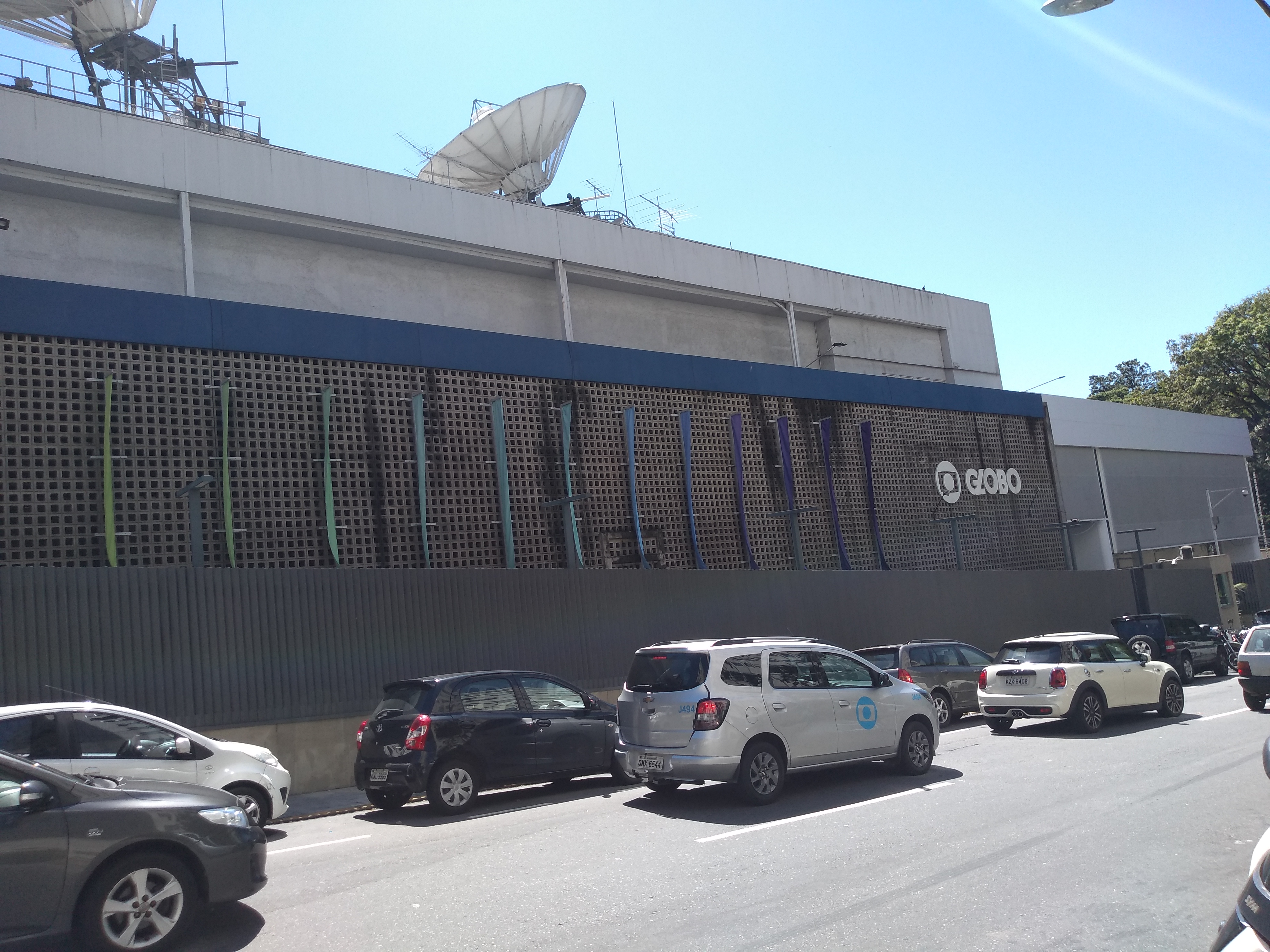 Headquarters of TV Globo (ZYB 511), channel 4 of Rio de Janeiro.